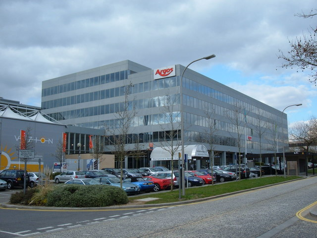 Argos Head Office Location of the head offices of Argos UK.